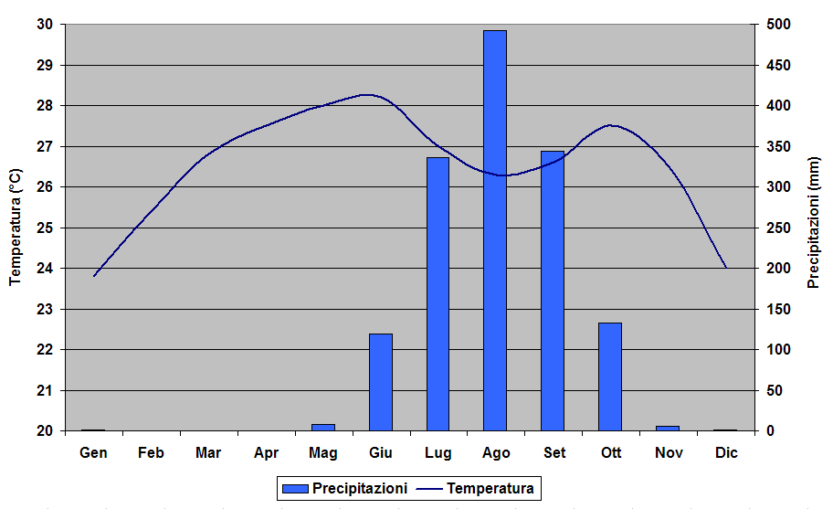 Climate diagram of Ziguinchor, Senegal